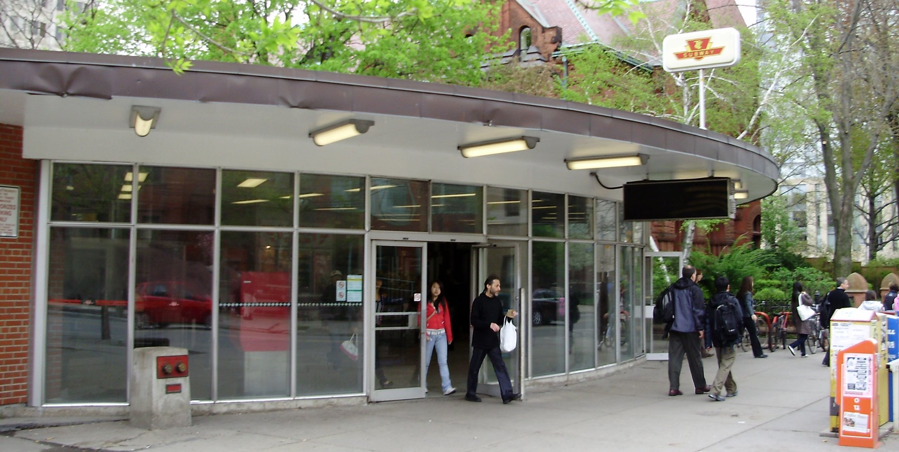 An entrance to the TTC's St. George Station, looking south down St. George Street